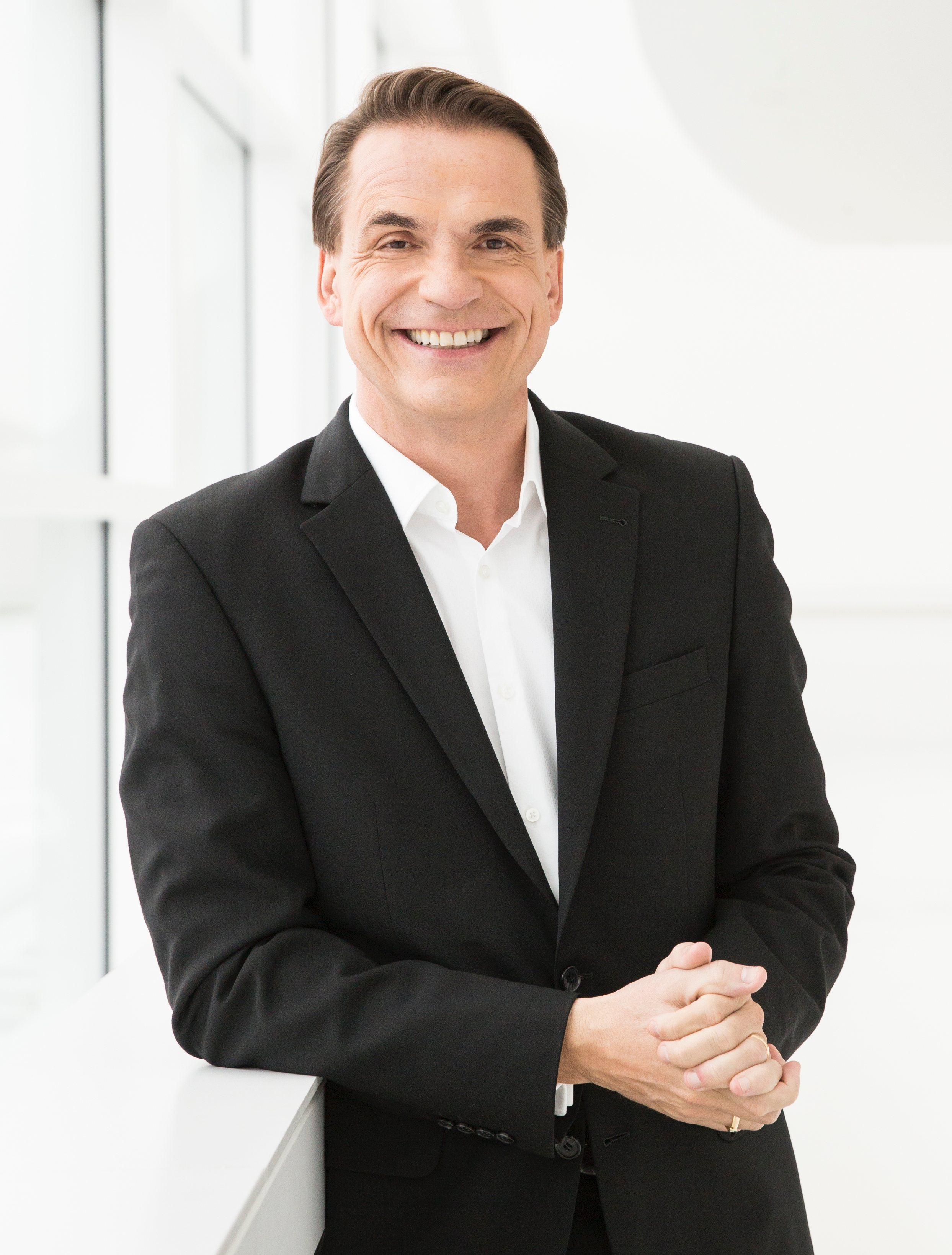 Markus Dohle, German manager and publisher